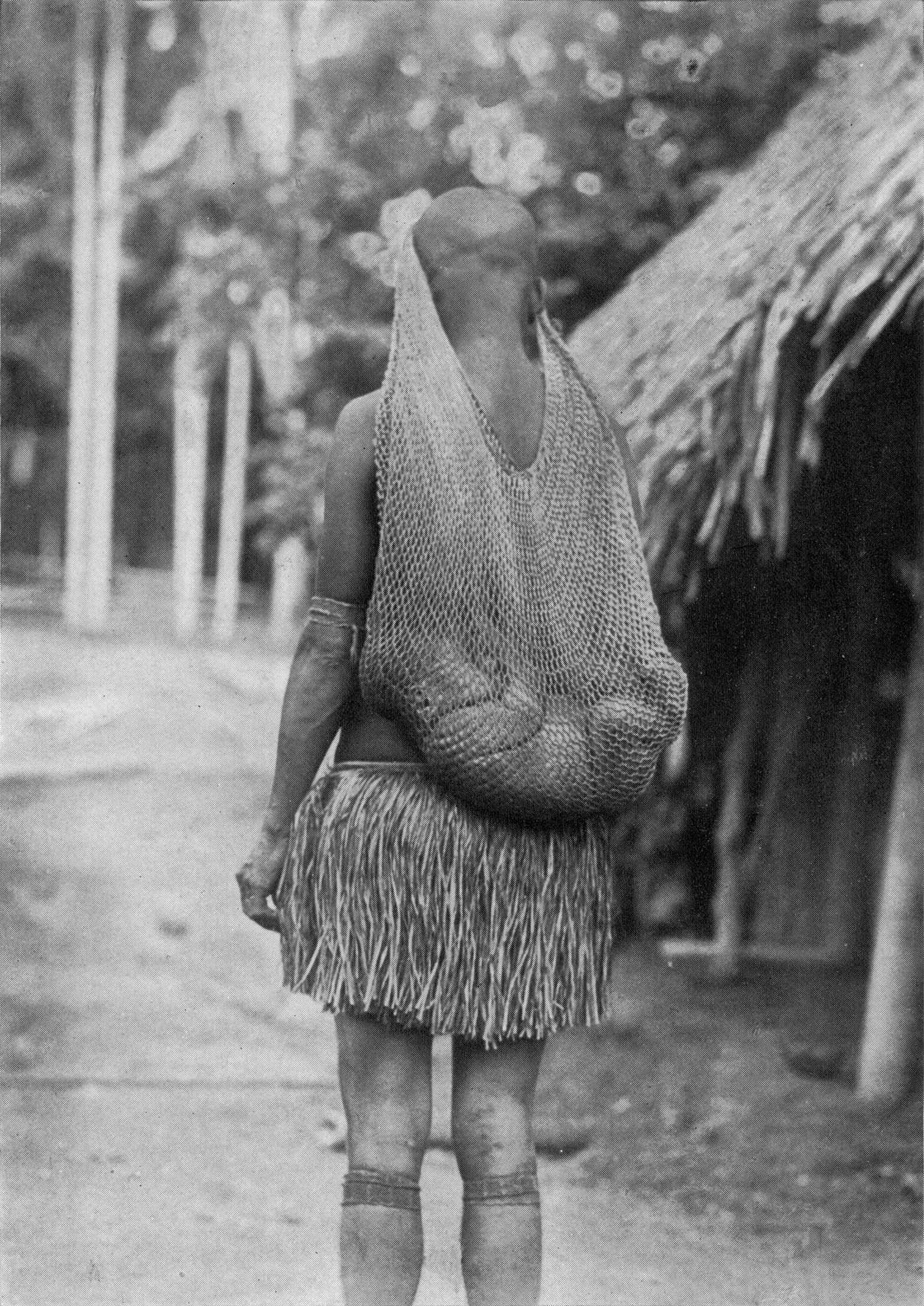 A NEW GUINEA WOMAN AND BABY. This device is at a disadvantage when compared with an American cradle, but it is a touching evidence of maternal inventiveness and industry at work for baby's safety even in the South Seas.